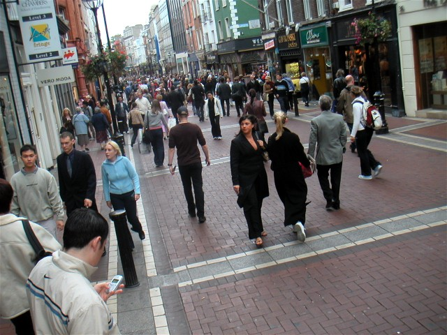 People on Grafton Street, Dublin, Ireland